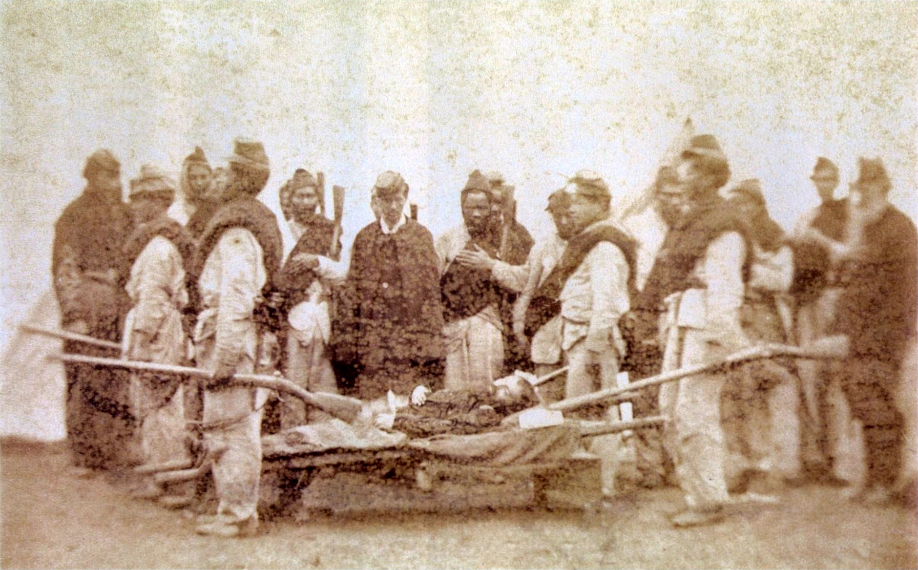 Spanish-born León de Palleja's death during the Battle of Potrero Sauce. His men, the Uruguayan "Batallón Florida" (Florida Batallion), pay their last respect to their commander.